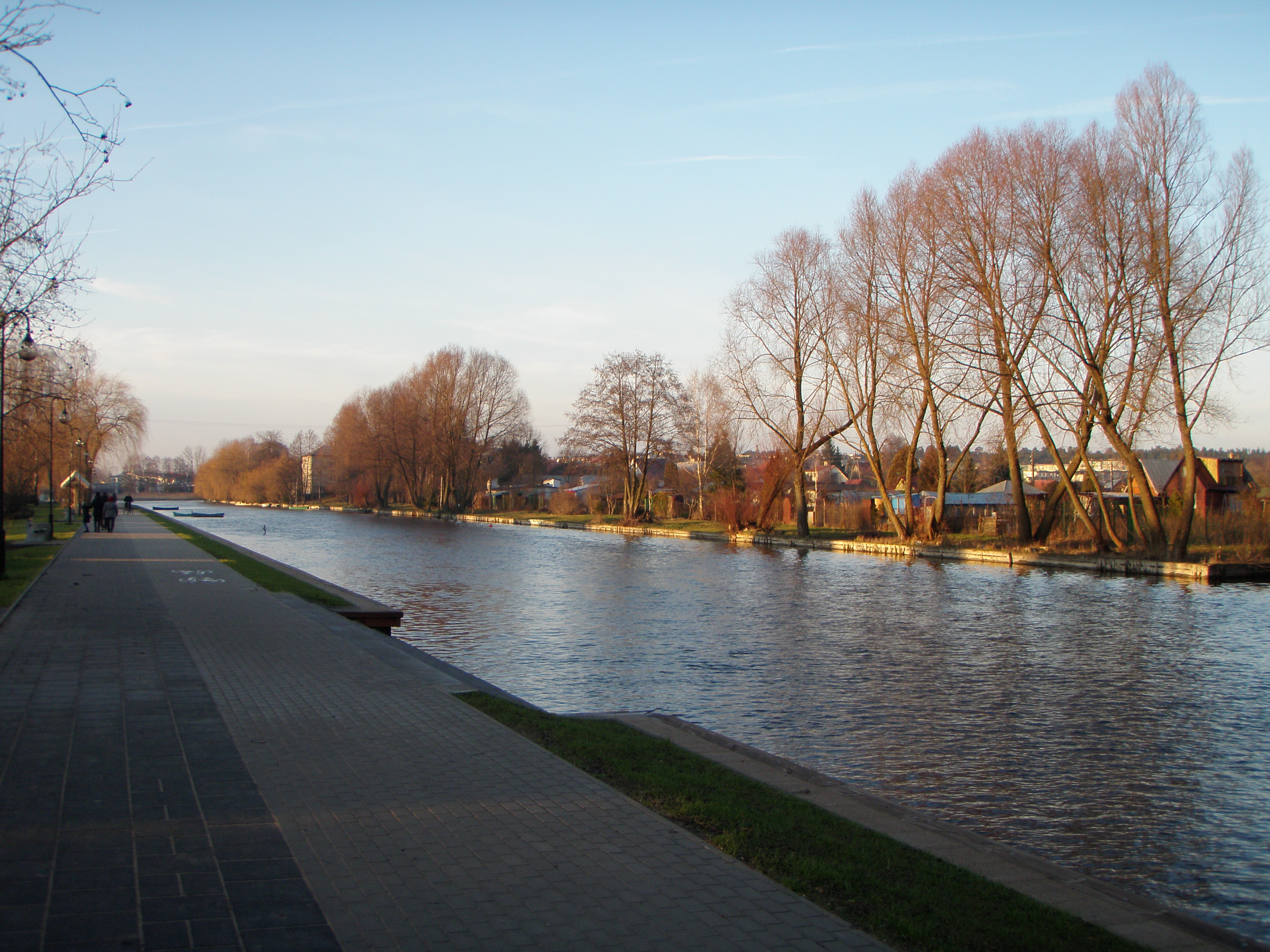 Bystry Canal in Augustów (Poland).